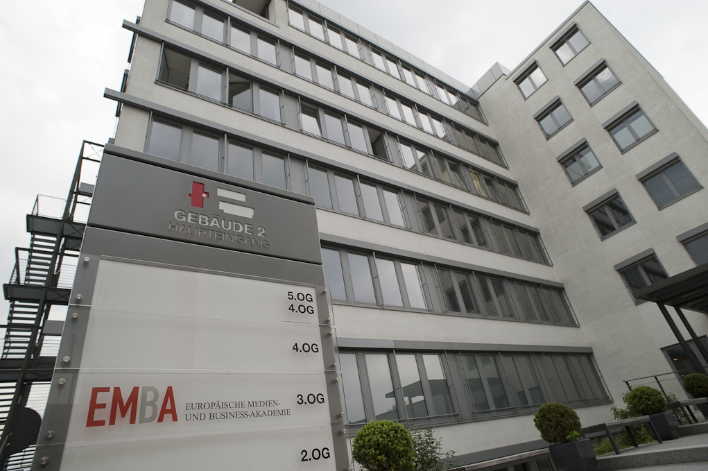 EMBACampusHamburg